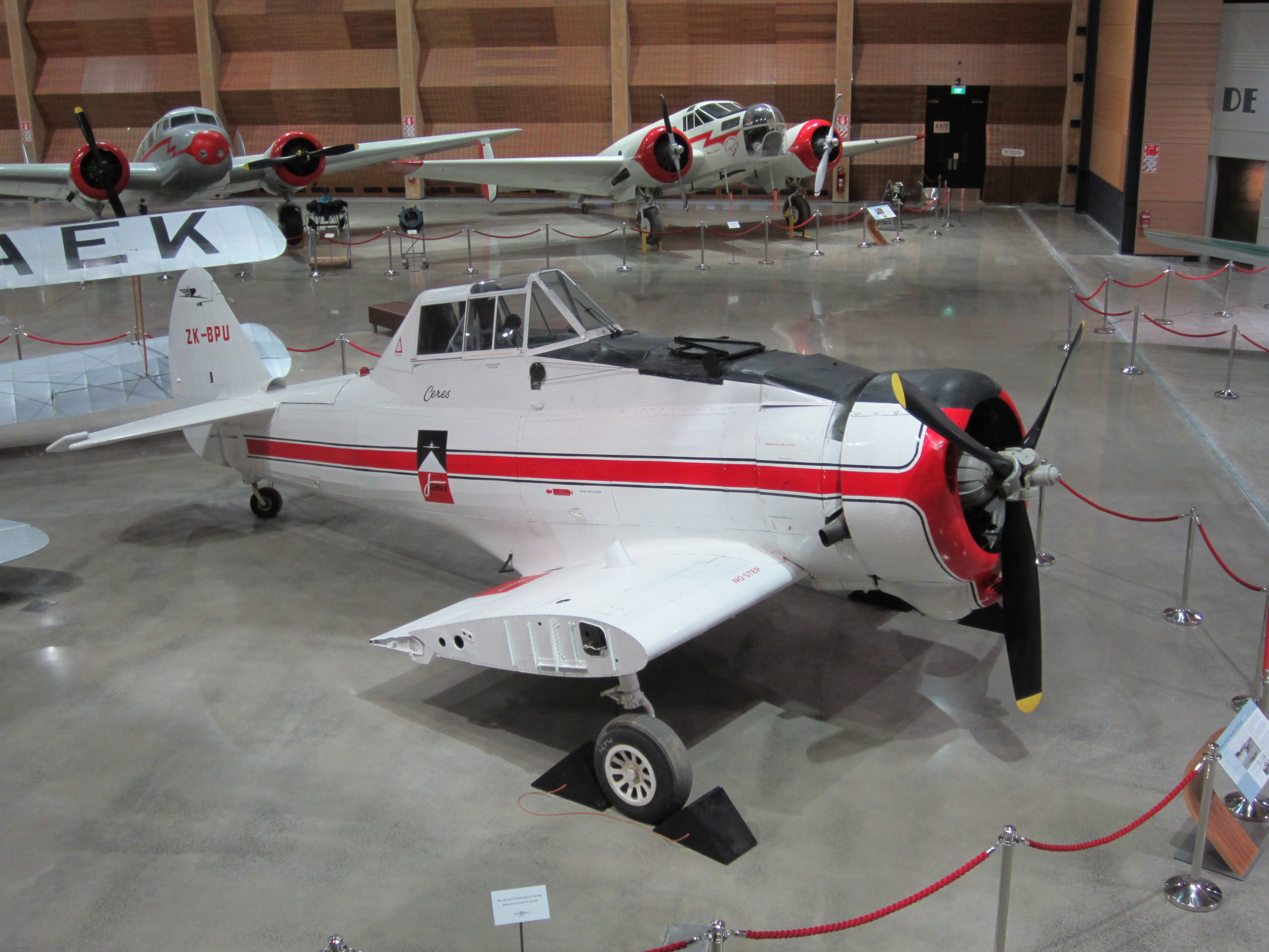 A CAC Ceres on display at MOTAT in Auckland